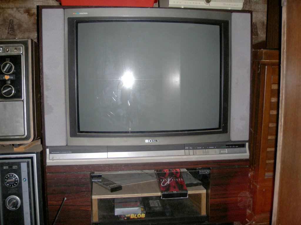 Sony Trinitron